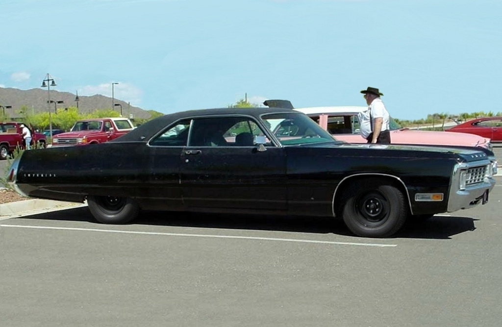 Love this style... just.... perfect specimen